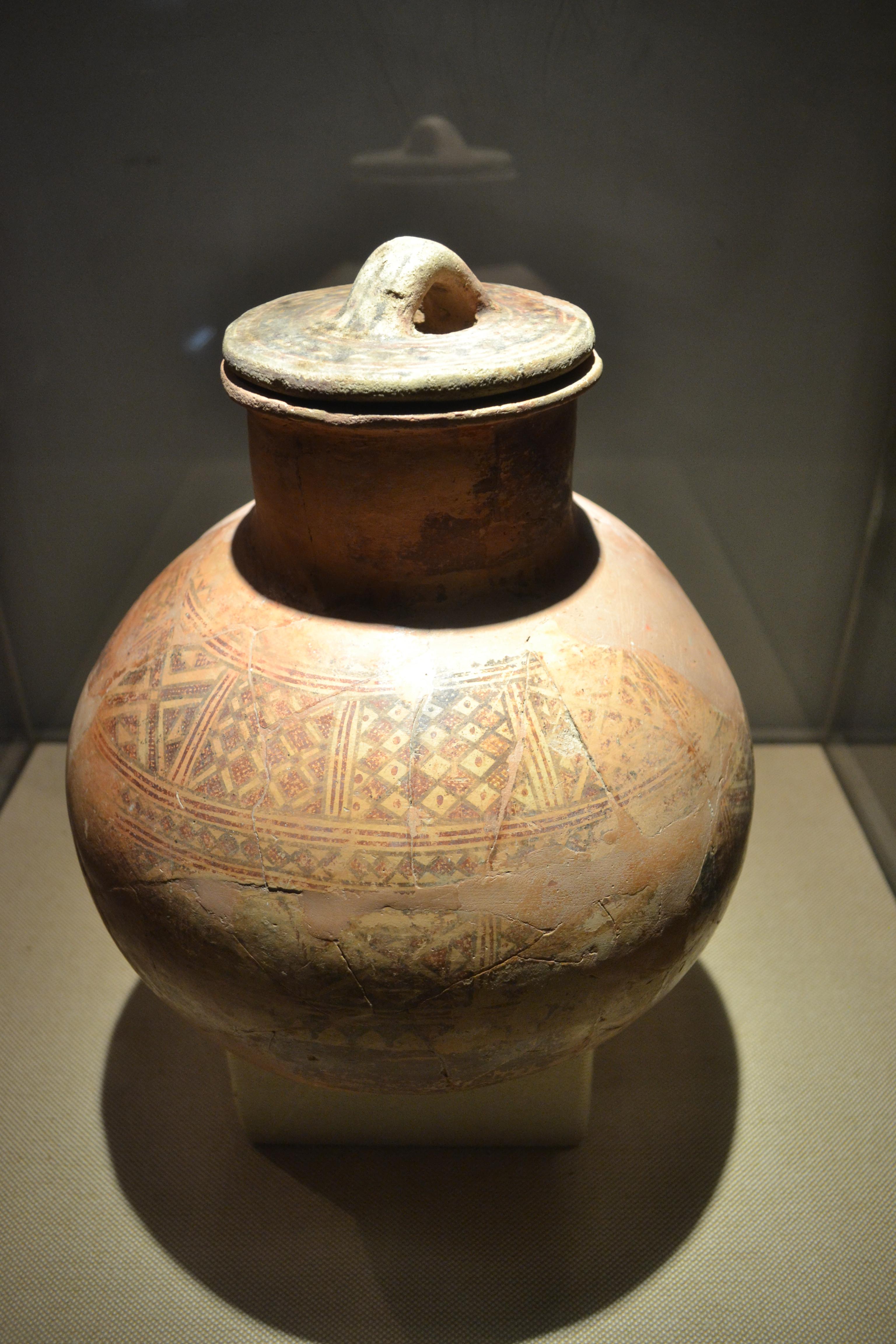 Painted Water Pitcher, Pirak (1800 800 BC). Islamaabd Museum